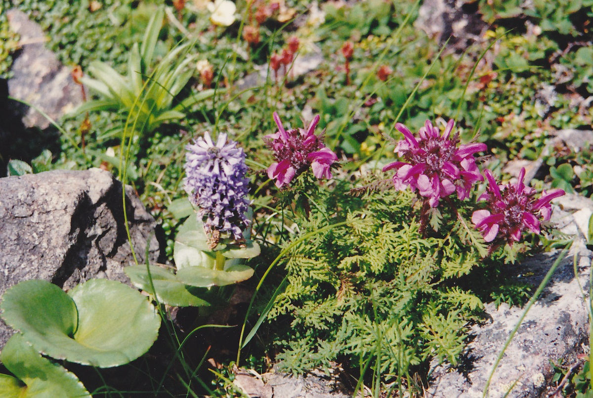 Lagotis glauca and Pedicularis apodochila, in Mount Shirouma, Japan.